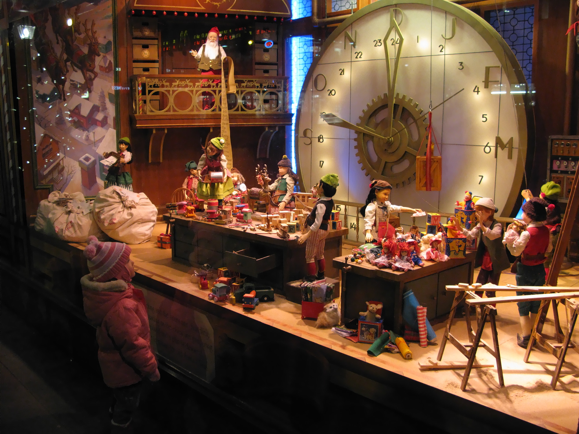 One of the window displays at the Bay department store in Downtown Toronto, Ontario.